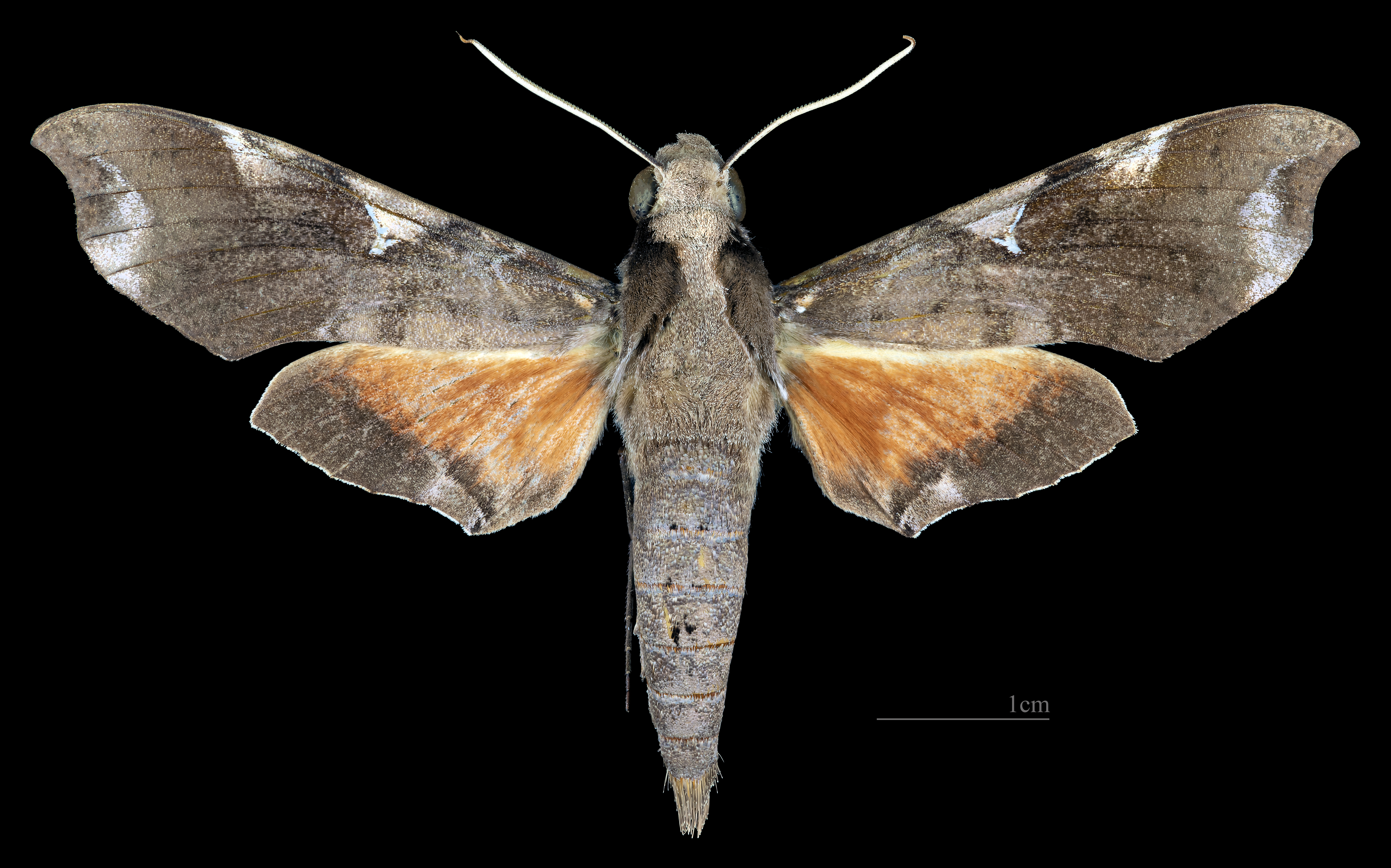 Callionima acuta - Dorsal side Collection of the Mathematician Laurent Schwartz